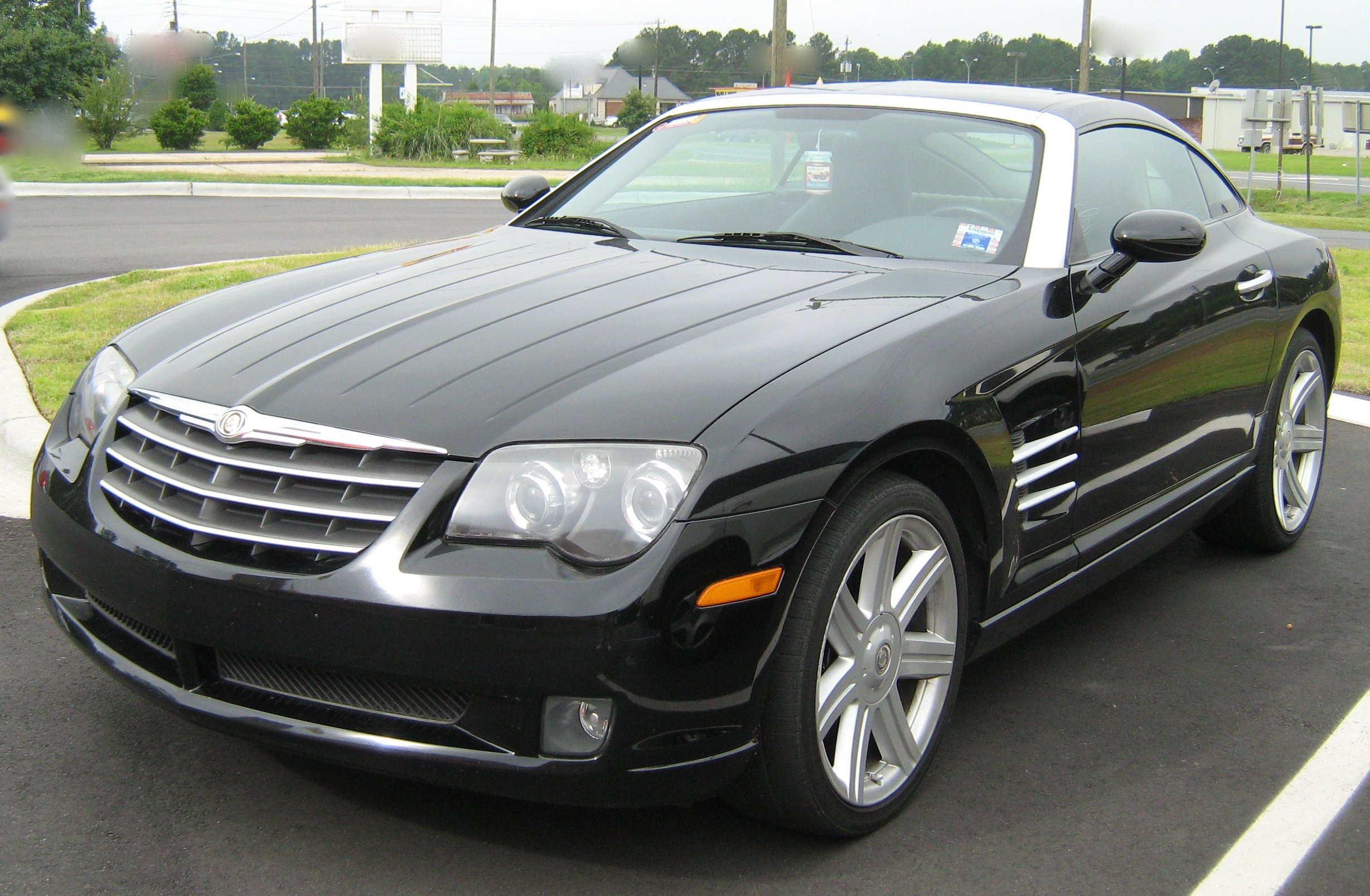 Chrysler Crossfire coupe black - coupe